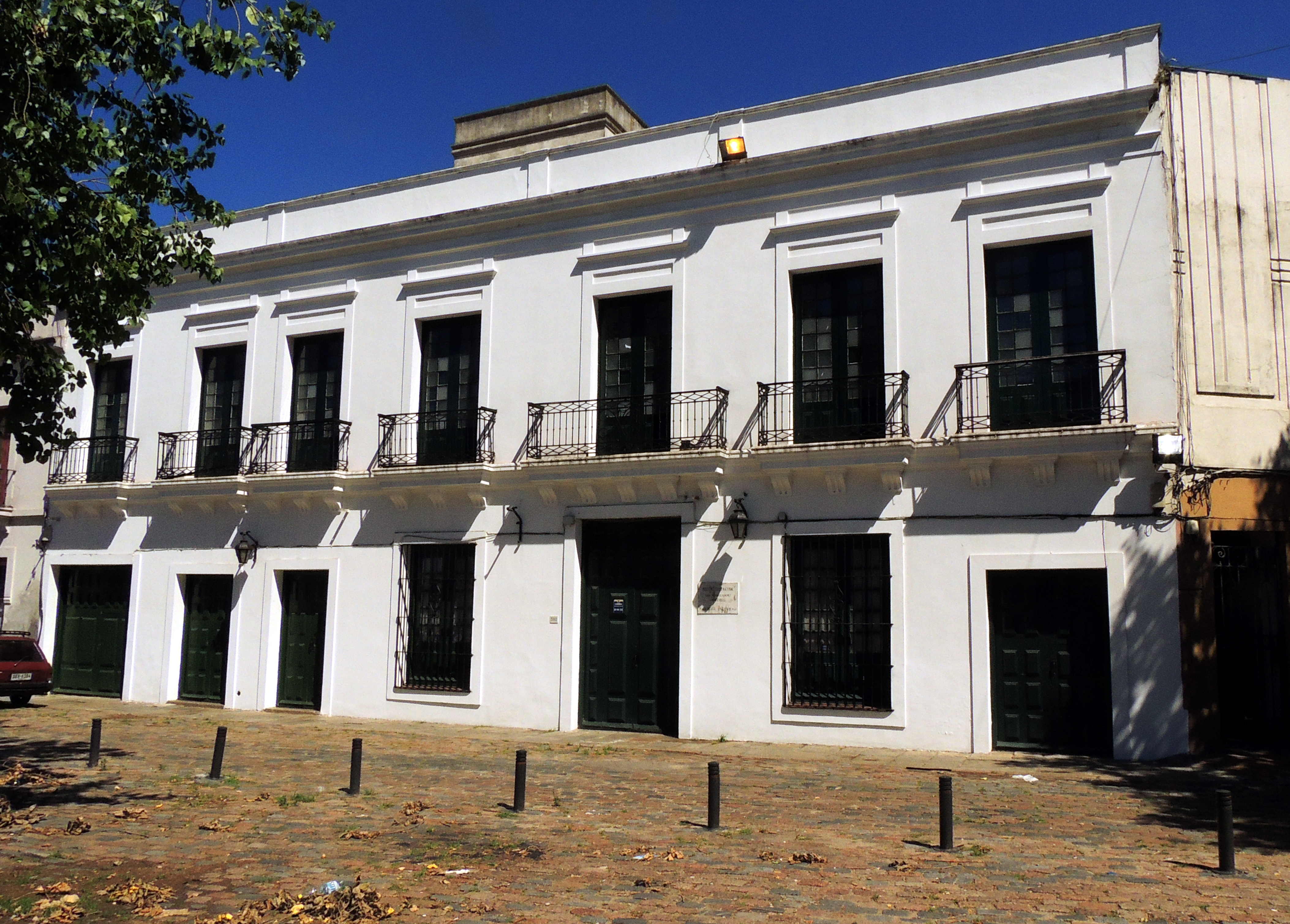 Casa de don Manuel Ximénez, part of the Museo Histórico Nacional in Montevideo, Uruguay.